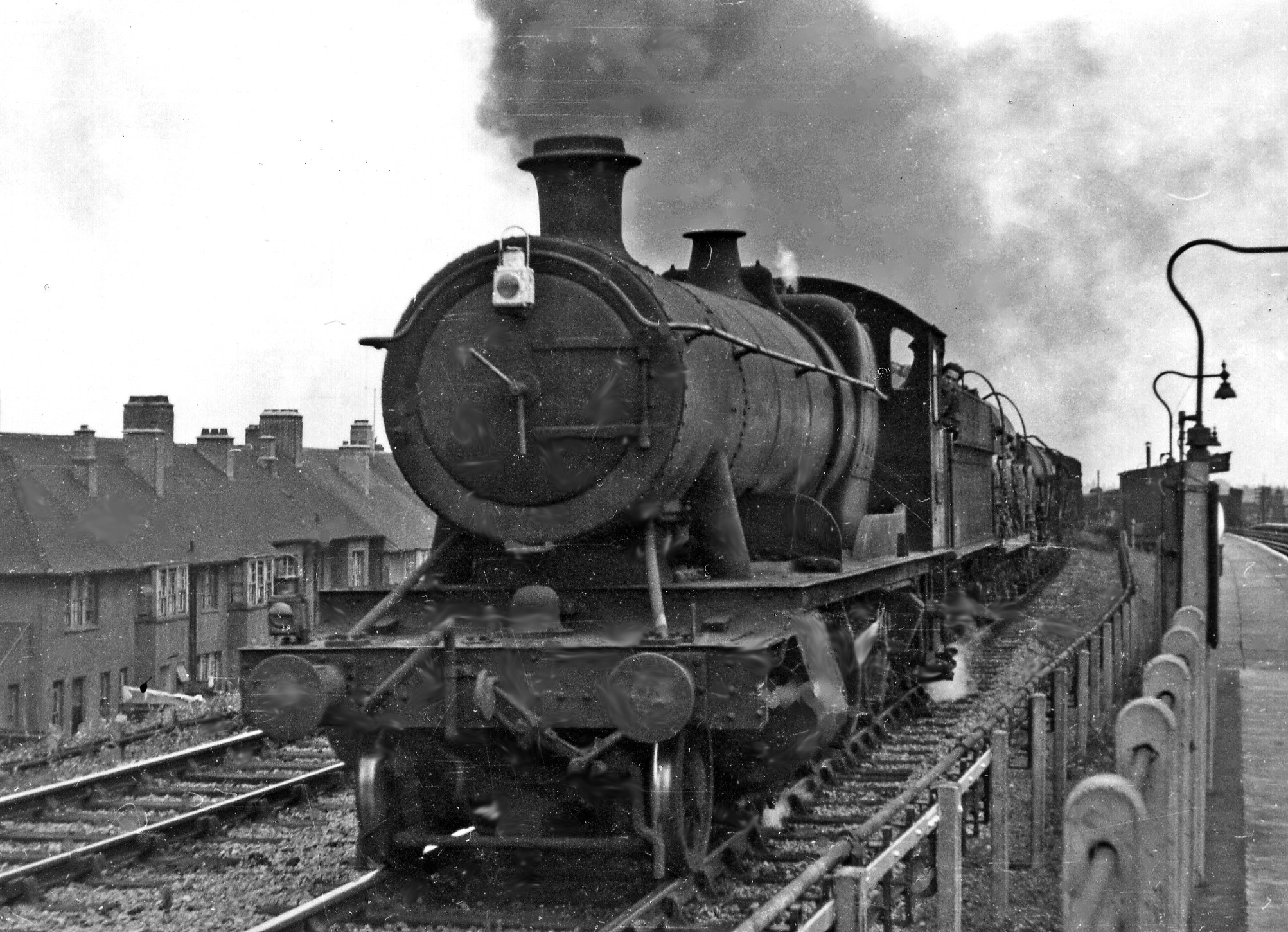 Down Milk empties passing East Acton LTE Station. View SE, towards White City and Kensington (Olympia); ex-GW Kensington (Uxbridge Road Jct.) - Old Oak Common loop line, paralleling the Underground Central Line. The train is probably the afternoon Class D Wood Lane - Plymouth milk empties, the corresponding full tankers having come up from Penzance overnight - seven days a week. Here the locomotive is '2883' 2-8-0 No. 3814 (built 3/40, withdrawn 12/64 but preserved - now on the North Yorkshire Moors Railway).